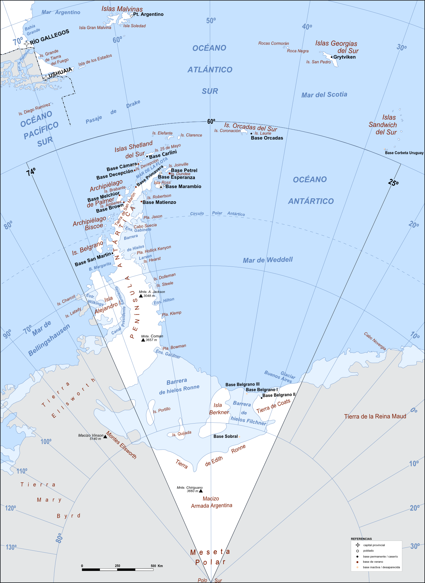 Map of the Argentine Antarctica, in Spanish, with Argentine officials names.